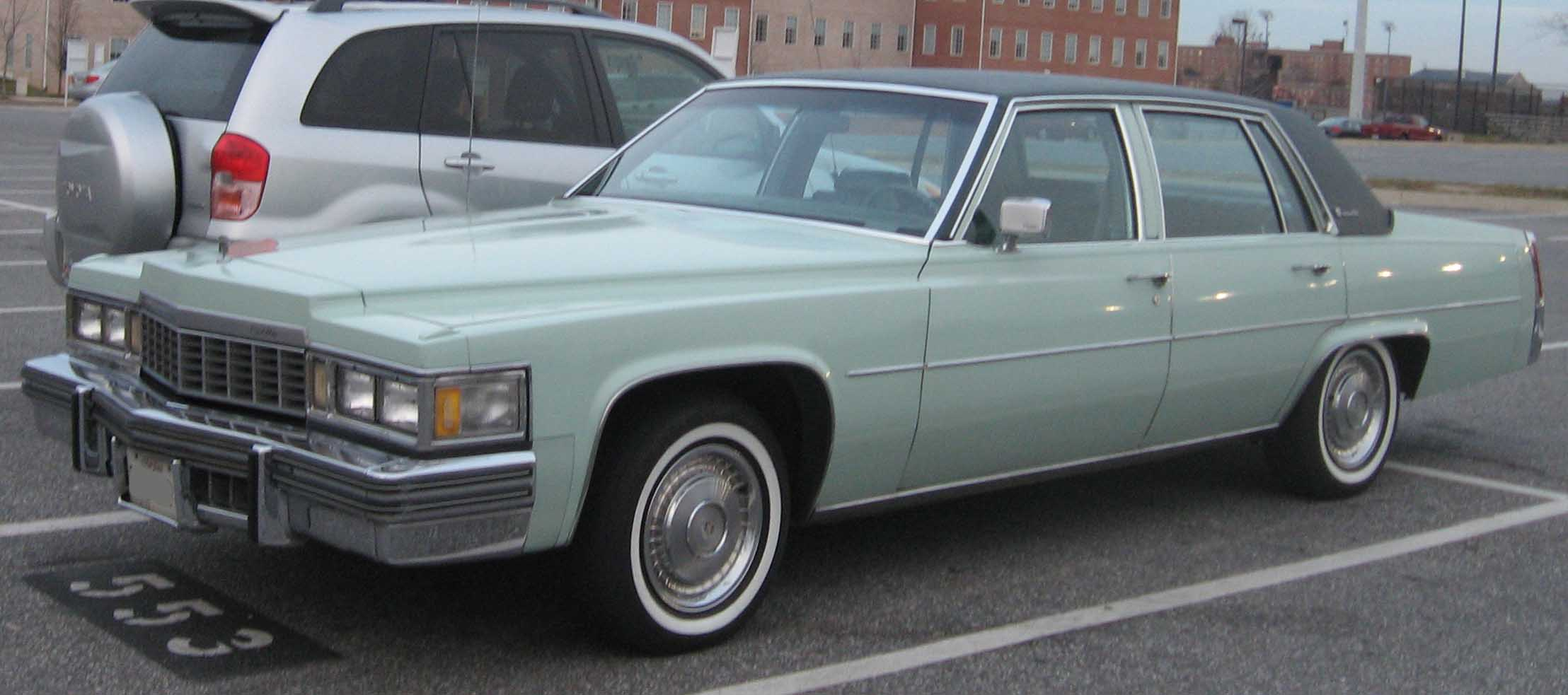 1977-1979 Cadillac Sedan de Ville photographed in College Park, Maryland, USA.